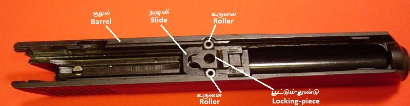 Cz52 slide